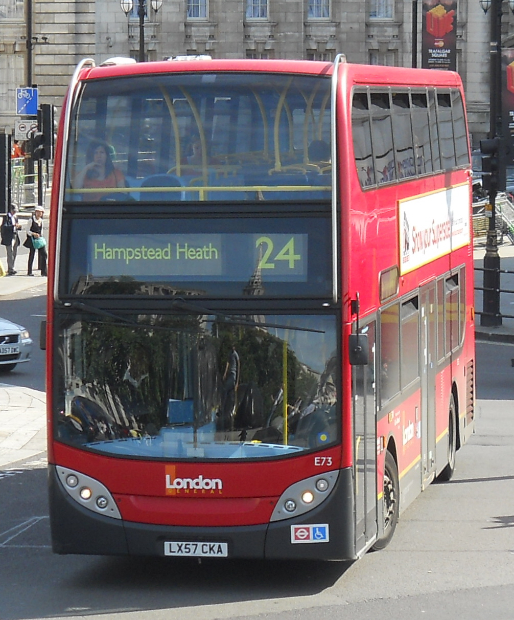 London General bus E73 (reg. LX57 CKA), a 2007 Alexander Dennis Enviro400 integral double-decker, pictured in Trafalgar Square, City of Westminster, London, operating London Buses route 24 to Hampstead Heath.